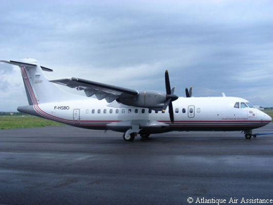 The ATR 42, a twin-turboprop, short-haul regional airliner built in France and Italy by ATR